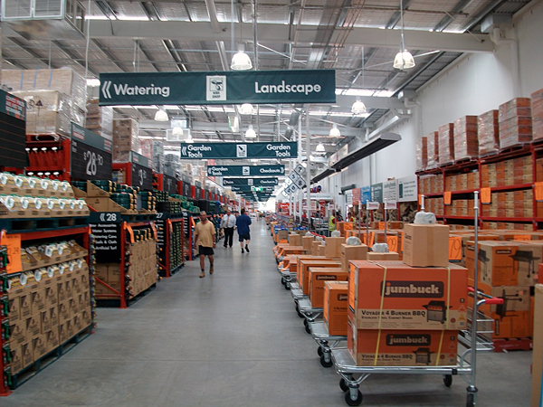 Bunnings Warehouse Wagga Wagga interior.